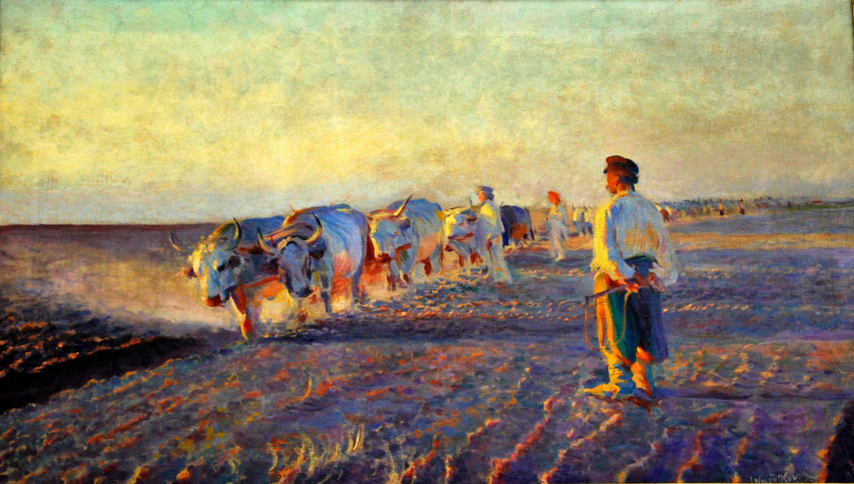 Leon Wyczółkowski 'Tillage at Ukraine'